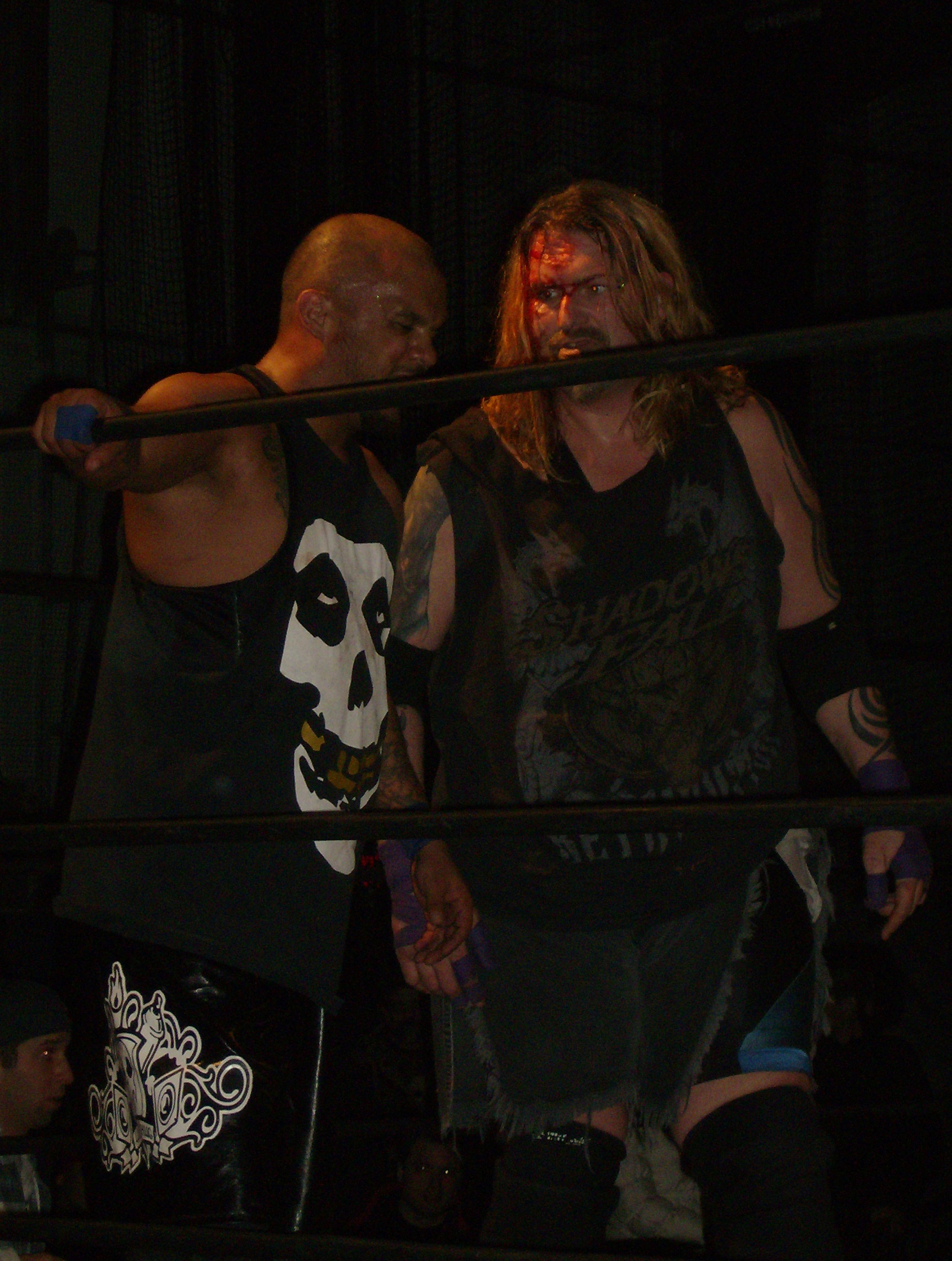 Balls Mahoney and Homicide at FTW Rise Against, 3-5-11.